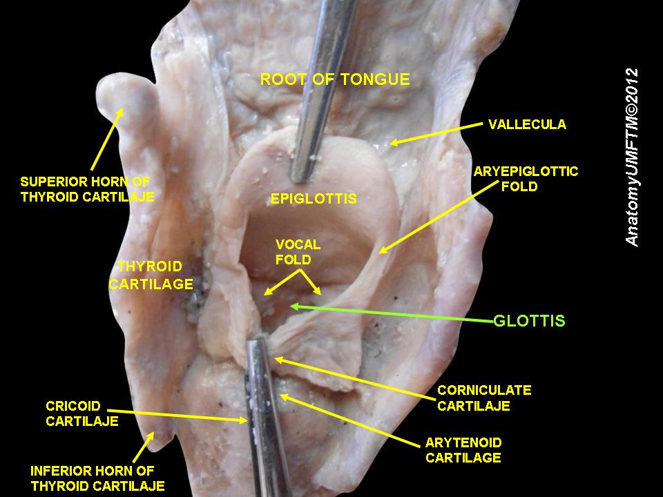 Anatomical dissections